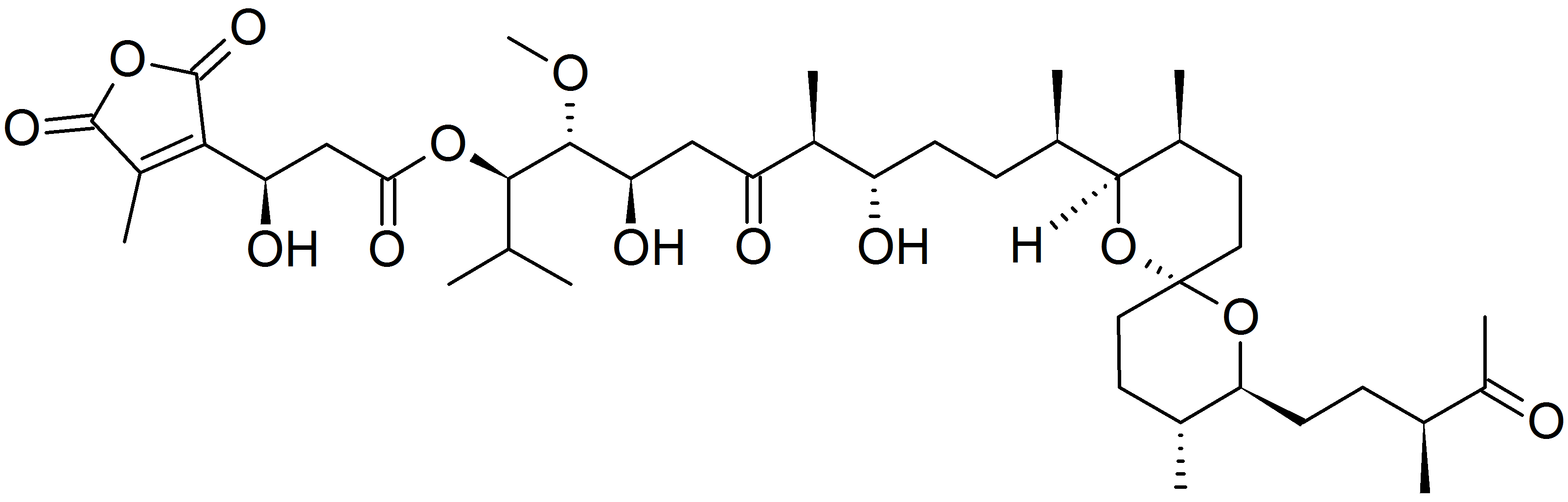 Tautomycin, adapted from